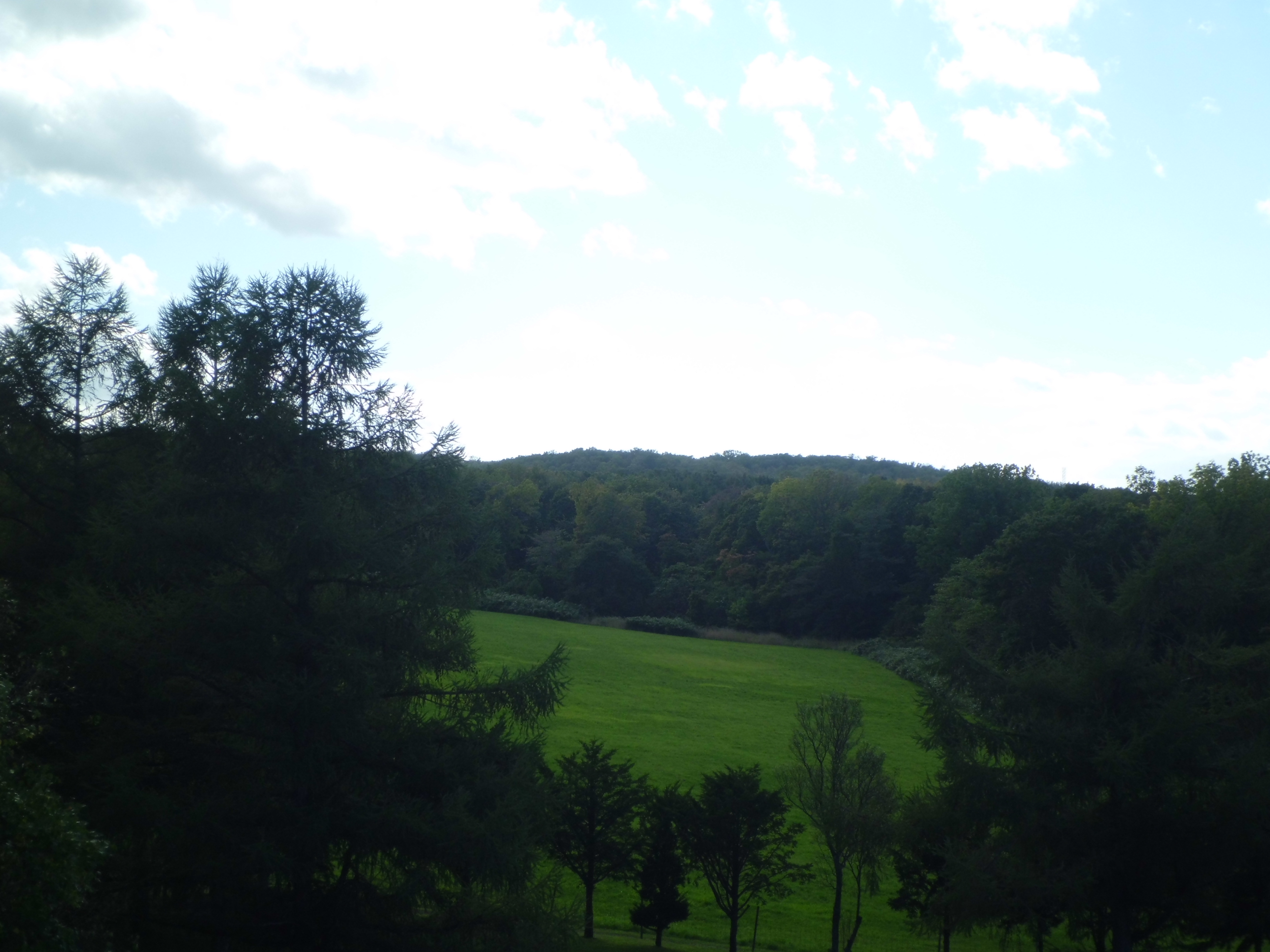 Looking South from Hitsujigaoka